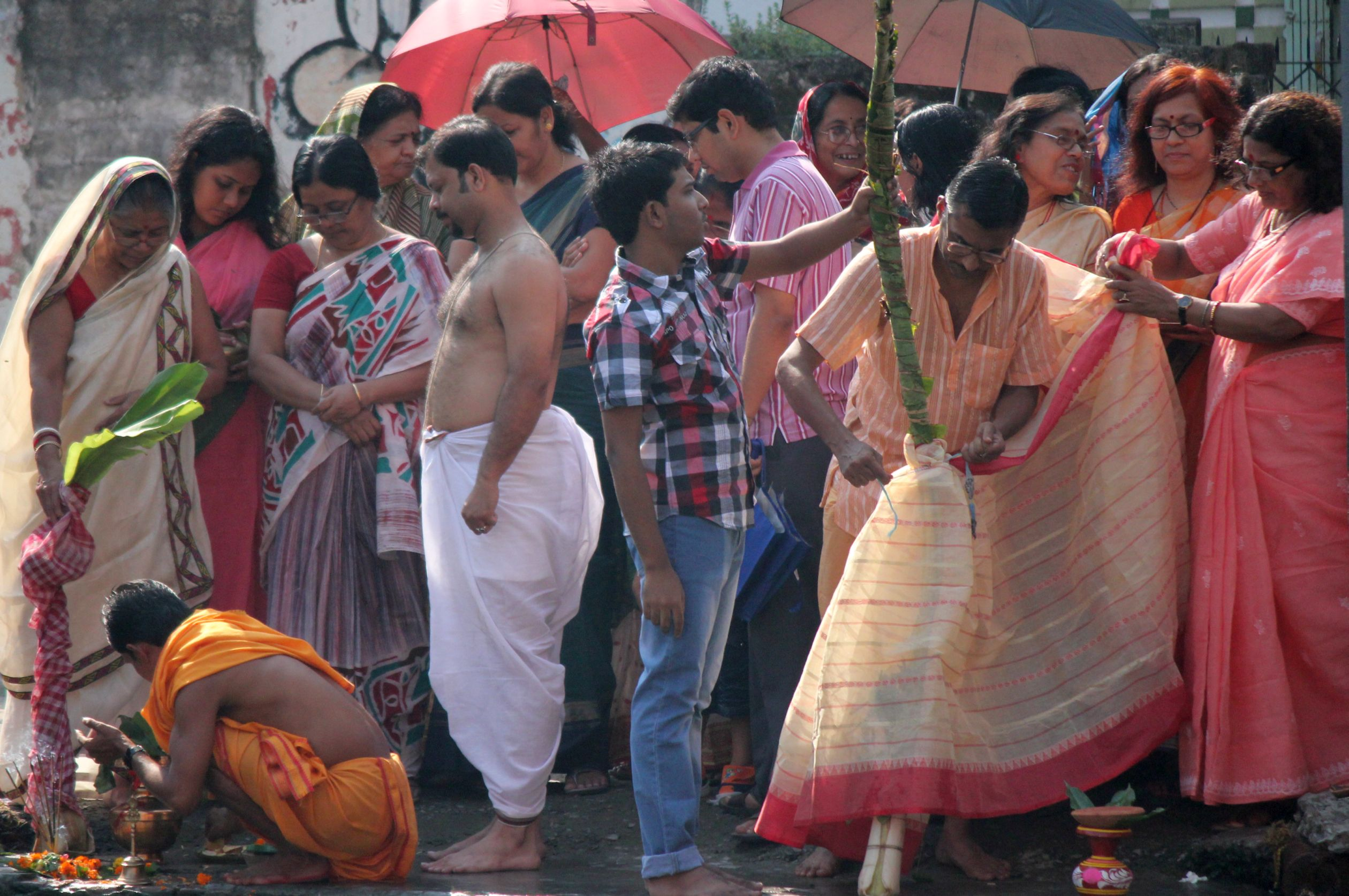 Nabapatrika Snan on Saptami Morning Of Durgapuja